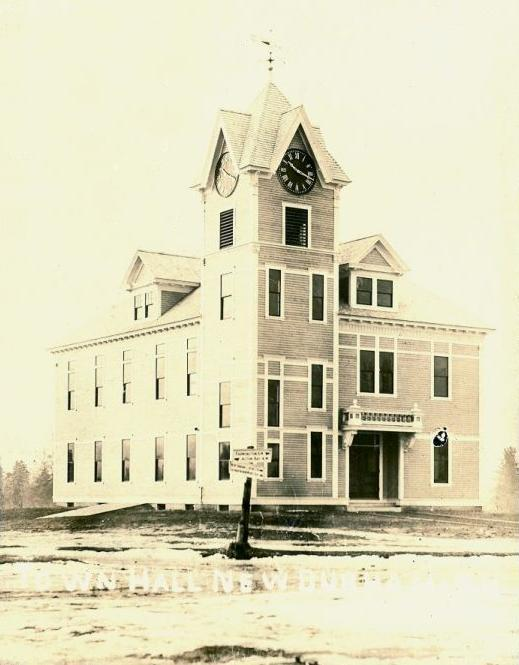 Town Hall, New Durham, New Hampshire. Completed in 1908, it was designed by Alvah T. Ramsdell, leading architect of Dover, New Hampshire at that time.